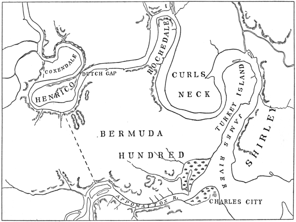 Plate captioned "Dale's Settlements on the Upper James" from Virginia Under the Stuarts